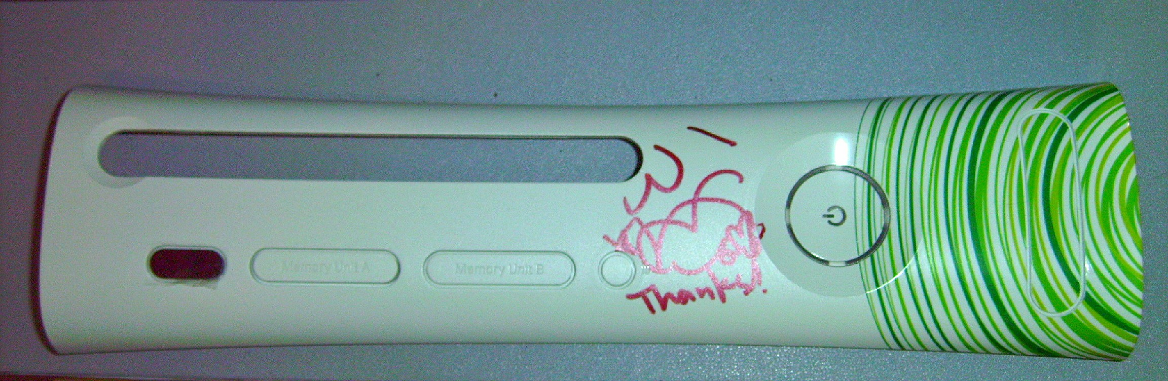 If someone can defeat VL-ONTV "NewGX" Host Kelly Huang in a invitation match, you'll get a special XBOX360 console skin with a signature of Kelly Huang.